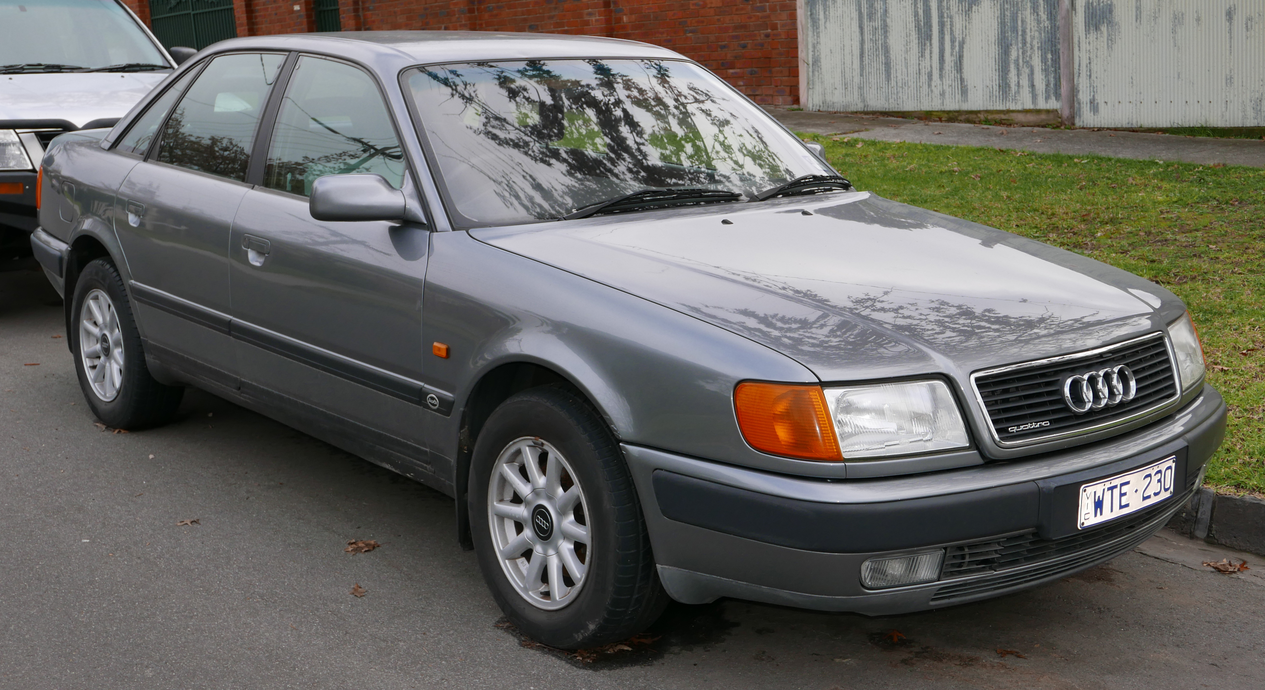 1992 Audi 100 (4A) 2.8 quattro sedan. Photographed in Balwyn, Victoria, Australia. Vehicle registration enquiry results Jurisdiction Victoria Registration WTE230 Chassis code WAUZZZ4AZNN058059 Engine code AAH077900 Compliance date 1992-02 Year of manufacture 1992